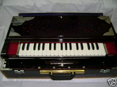 PAUL & CO HARMONIUM AT